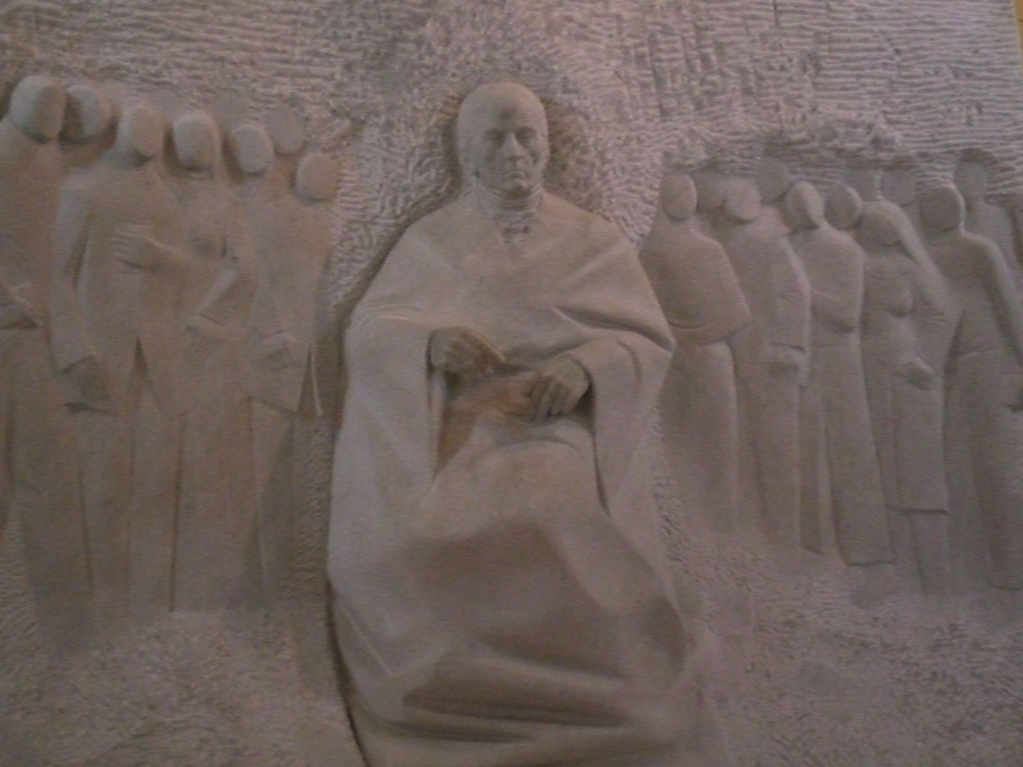 Andrés Bello monument at the National Pantheon.